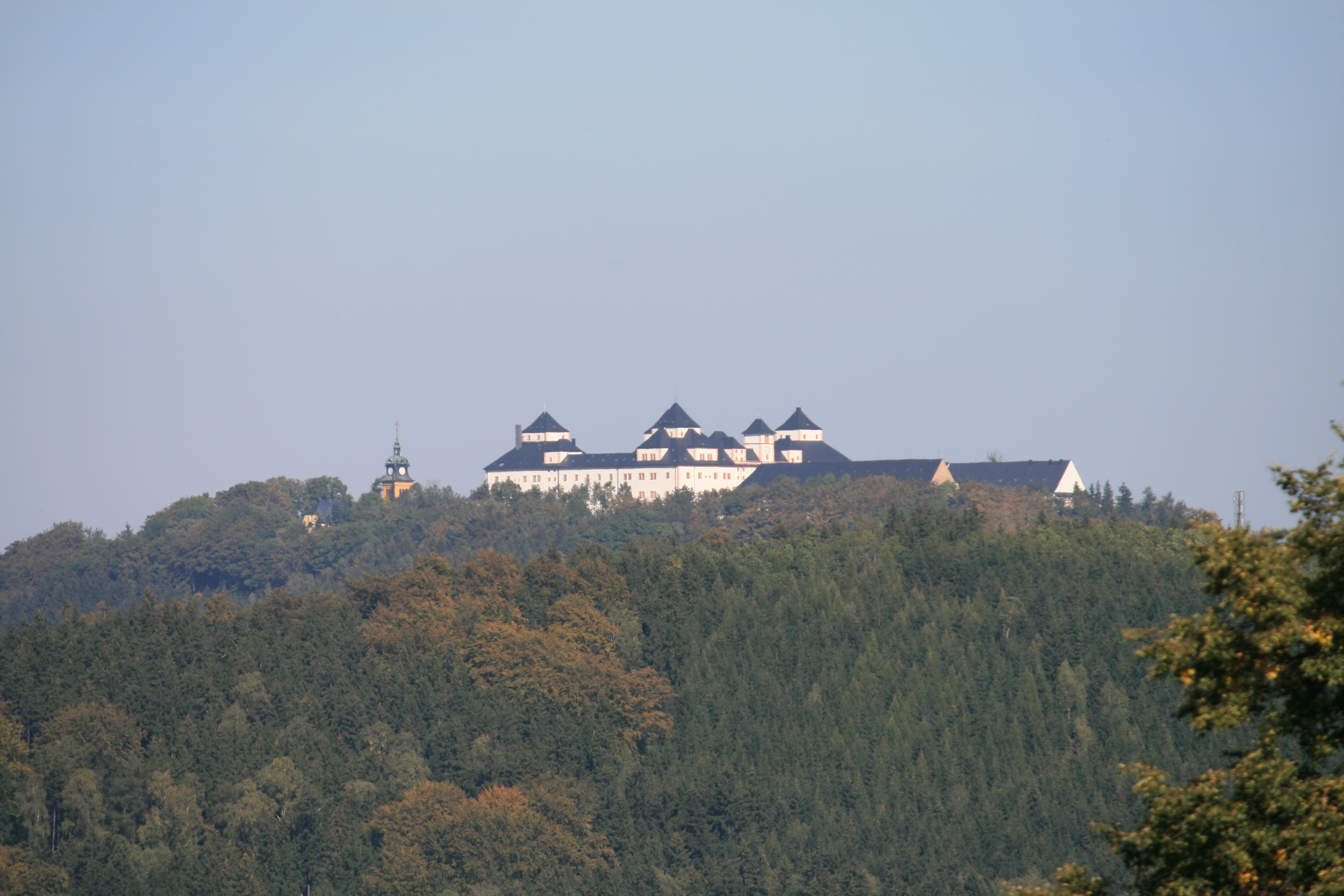 The Augustusburg (Saxony) seen from Witzschdorf